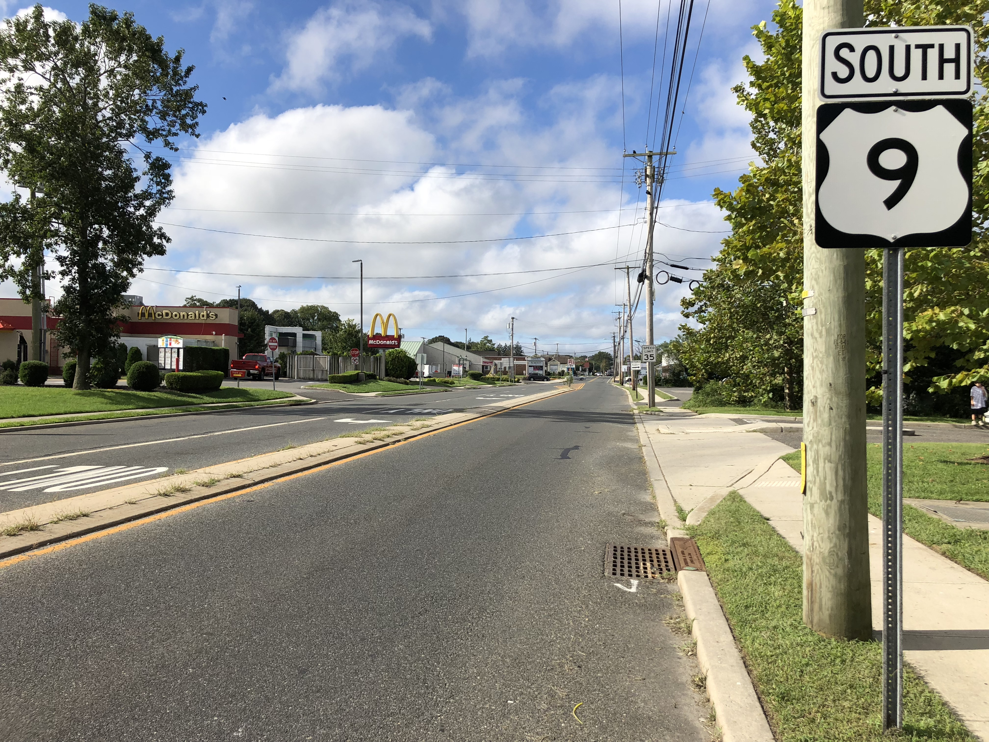 View south along U.S. Route 9 (New Road) just south of Atlantic County Route 563 (Tilton Road) in Northfield, Atlantic County, New Jersey